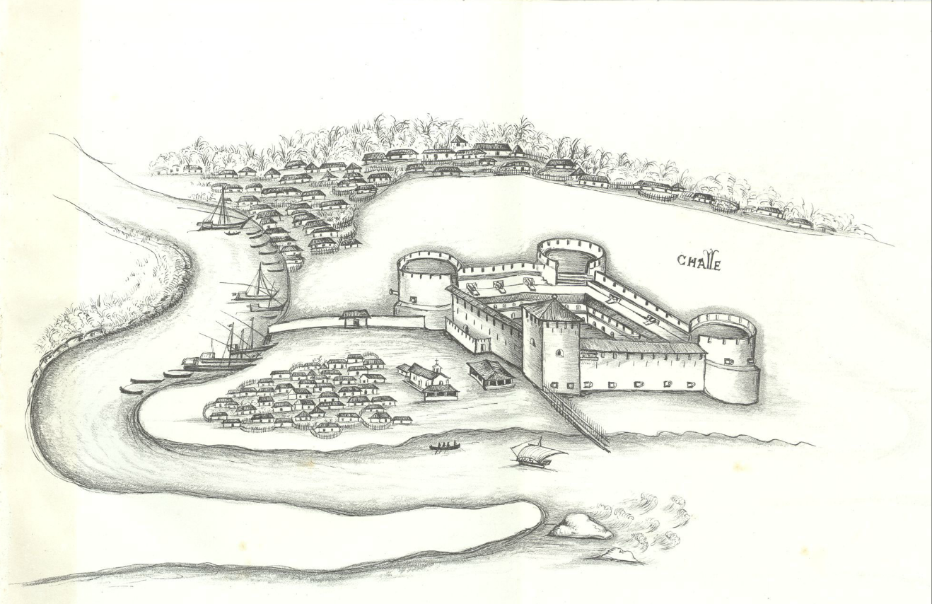 Hand-made drawing of the Portuguese fort of Chale, by Gaspar Correia, in Lendas da Índia, made between 1558-1563 and first published in 1858